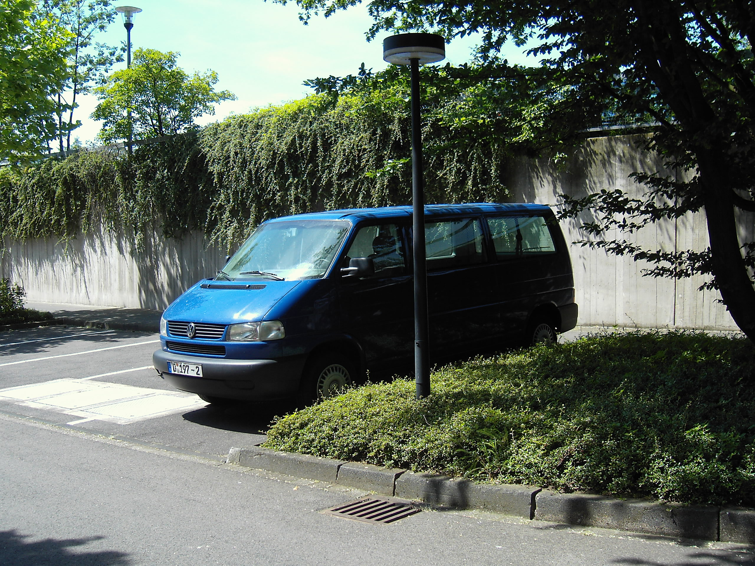 Ambassador vehicle in front of the "Haus Carstanjen" (seat of UN Organizations) in Bonn. It's a vehicle of the secretariat of the United Nations Convention to Combat Desertification.